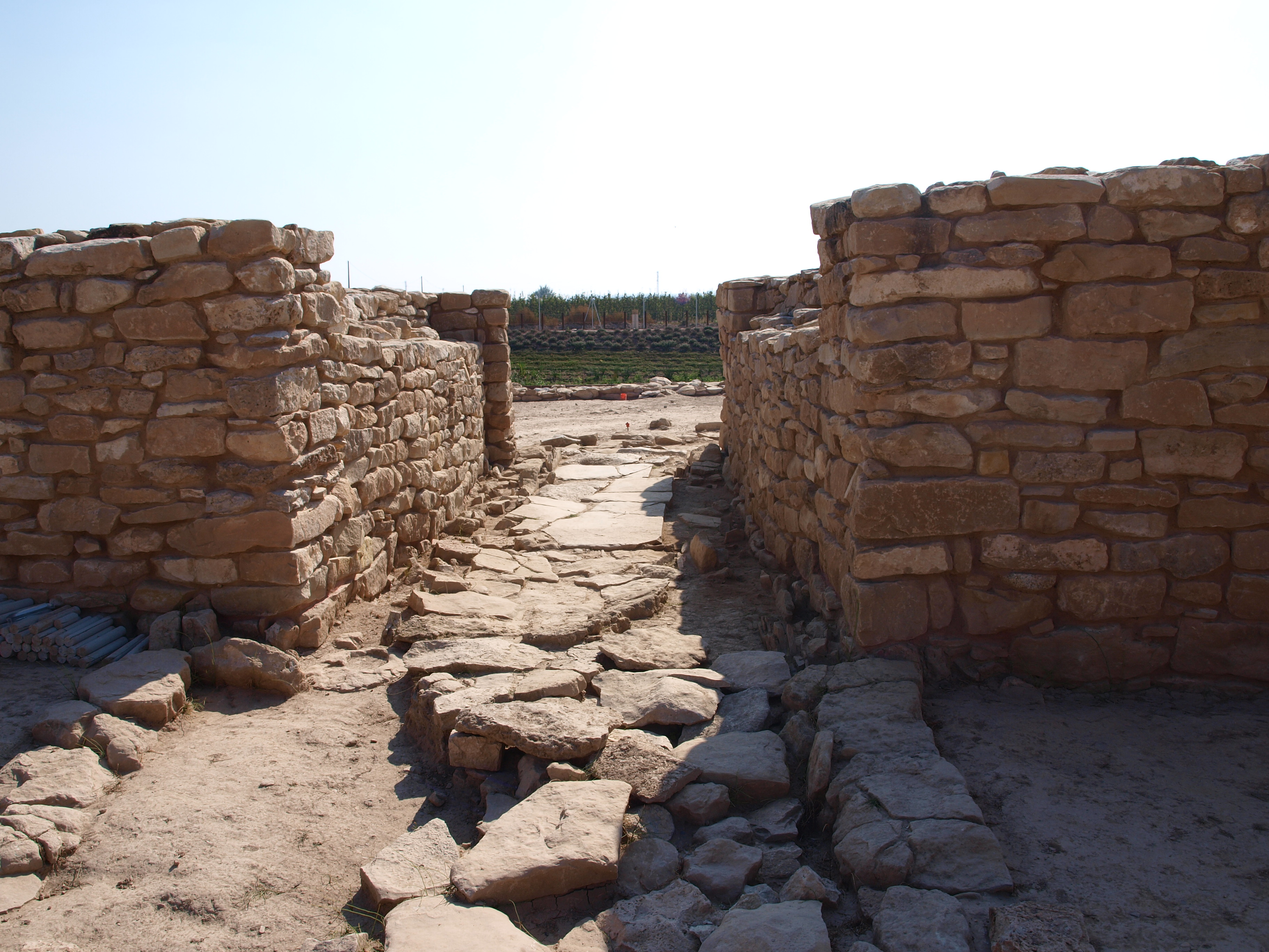 "Els Vilars" Iberian site — eastern entrance 01